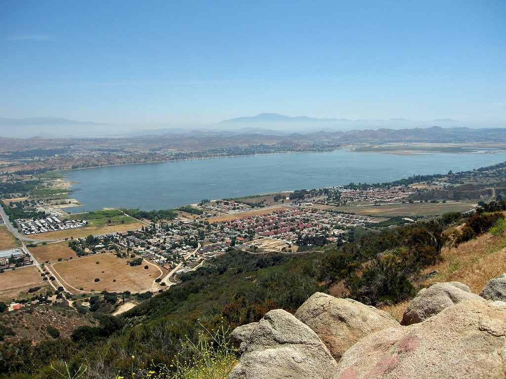 View of Lake Elsinore and surrounding area from Highway 74 (Ortega Highway).